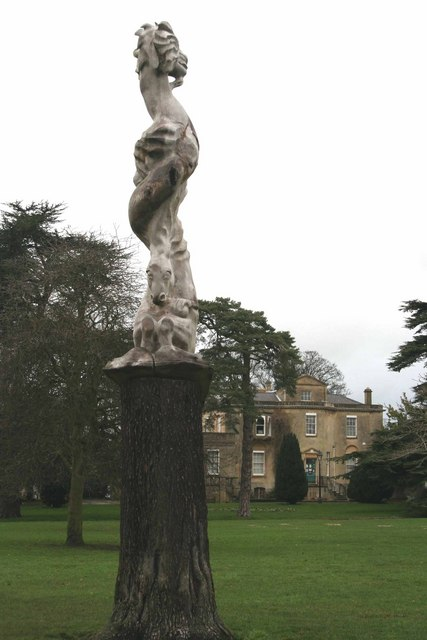 Sculpture Bury Knowle Park, Headington, Oxfordshire. The trunk of the dead cedar tree has been carved into a sculpture featuring characters from the books of the Headington authors J. R. R. Tolkien and C. S. Lewis: the dragon Smaug from The Hobbit, Aslan the lion from The Chronicles of Narnia, and the horse from The Horse and His Boy.In the background is Bury Knowle, an early 19th-century house that is now Headington Public Library